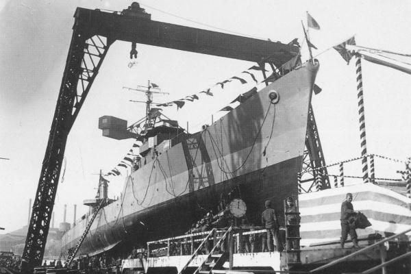 Kaba(II), new-Matsu class (Tachibana class) destroyer of the Imperial Japanese Navy, launching at Fujinagata Shipyard, Osaka, Japan.